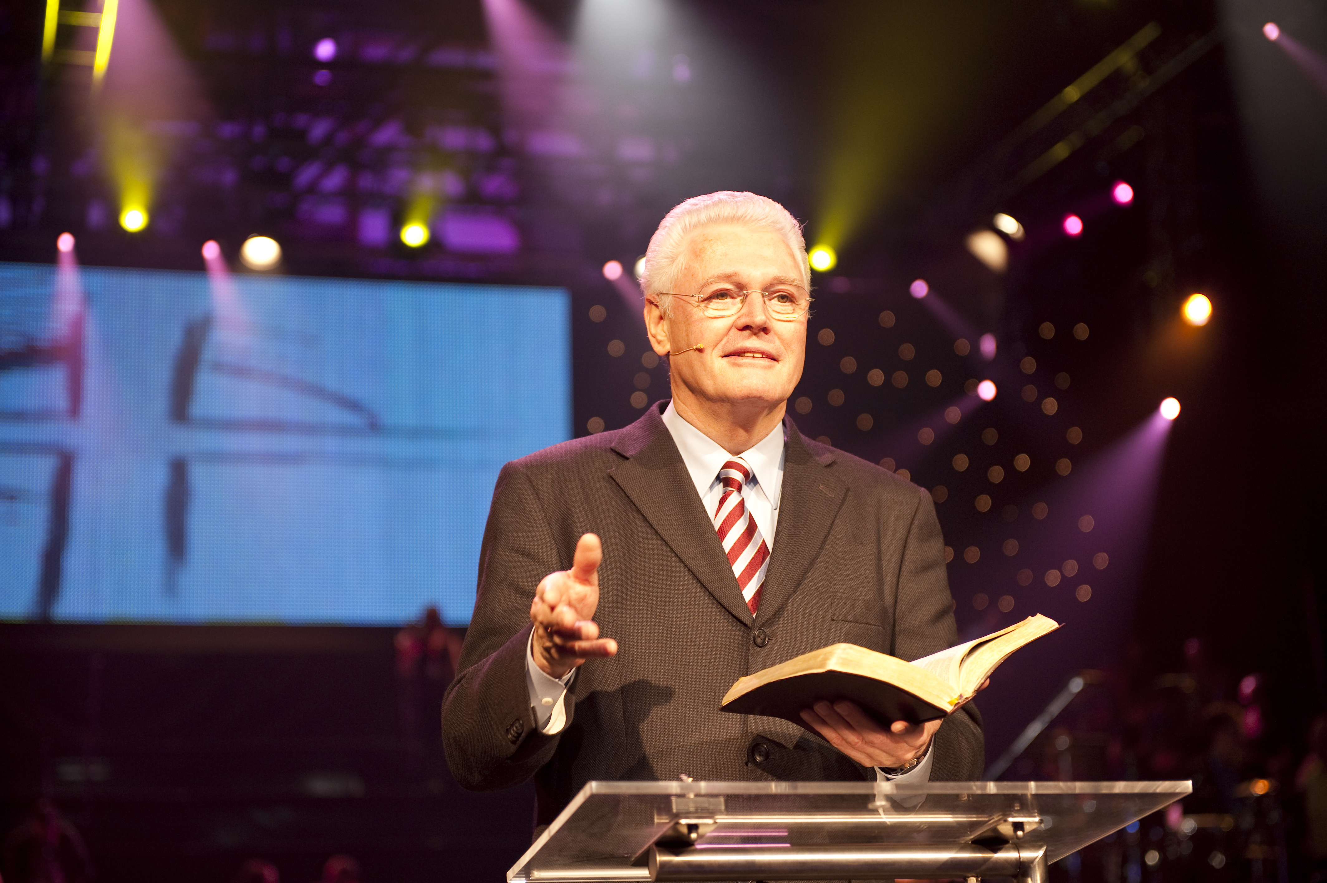 Ulrich Parzany at ProChrist 2009.